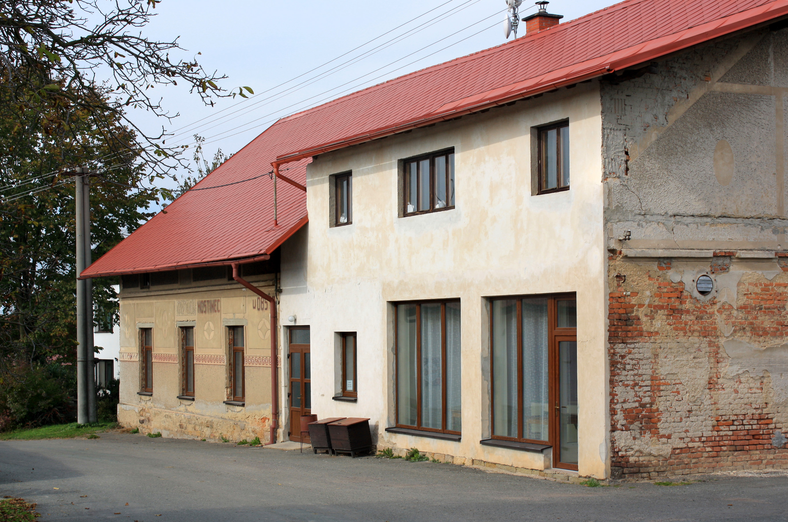 Former restaurant in Polom, Czech Republic